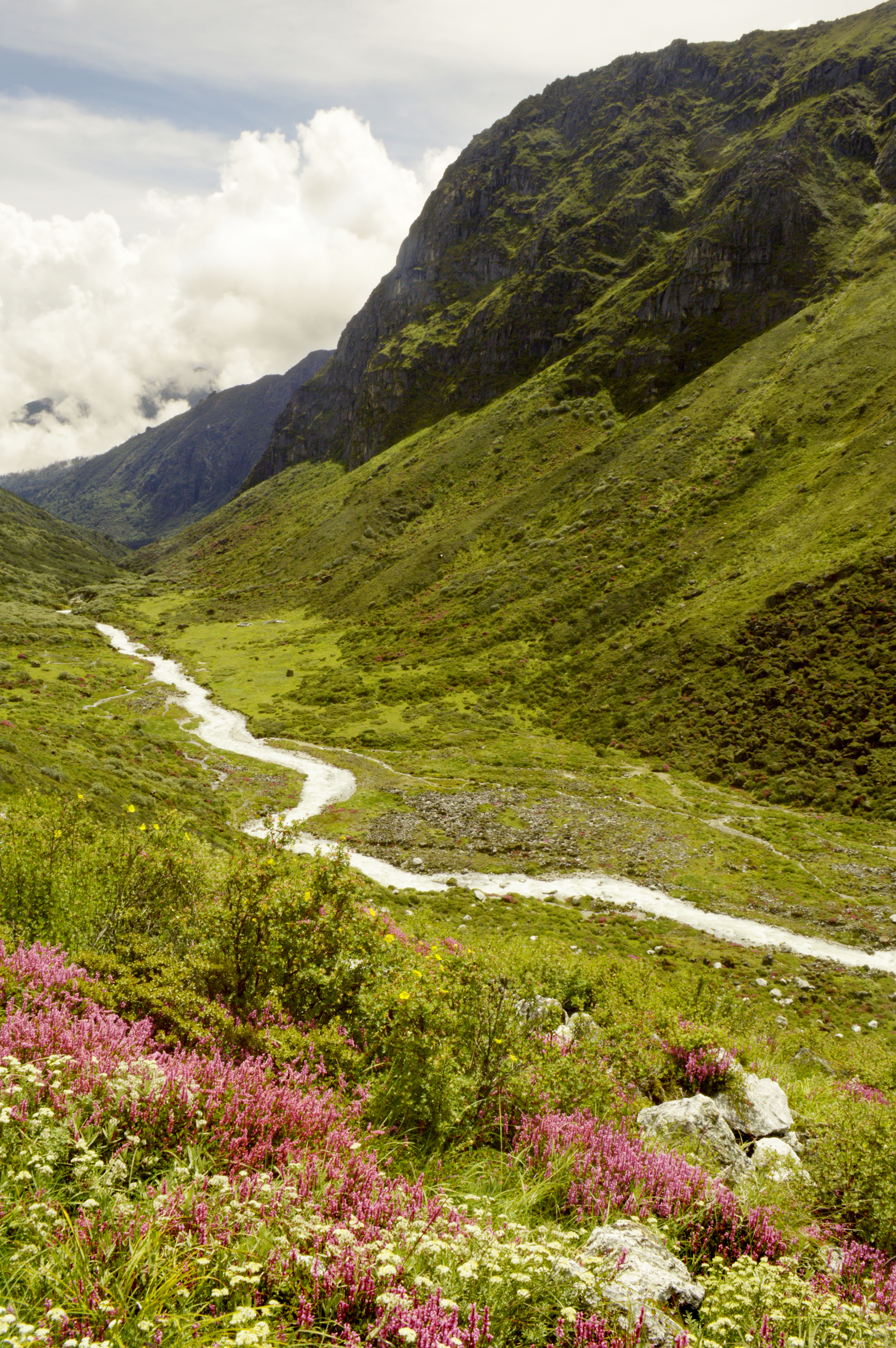 A scene from Kanchendzonga National Park, Sikkim. In this national park, lots of herbs or medicinal plants grow and now a days they were effected by global warming.